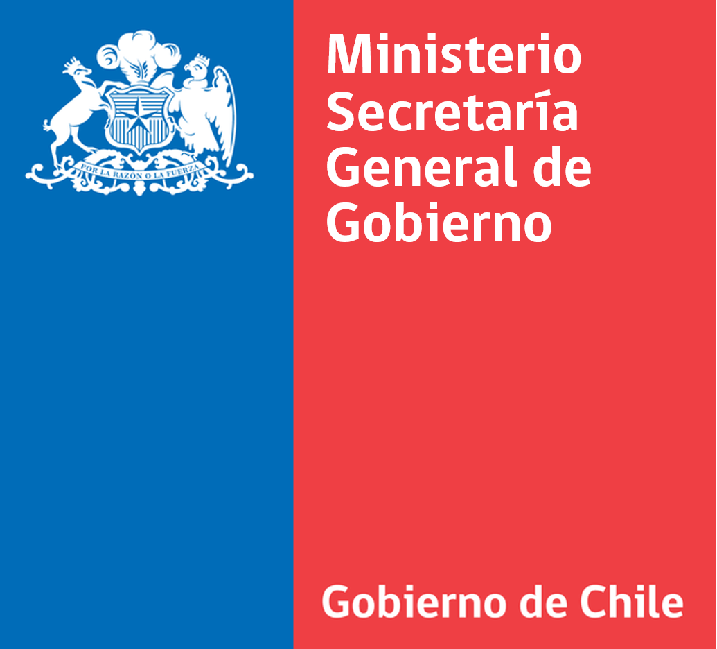 Logo of the Ministry Secretary General of Government.